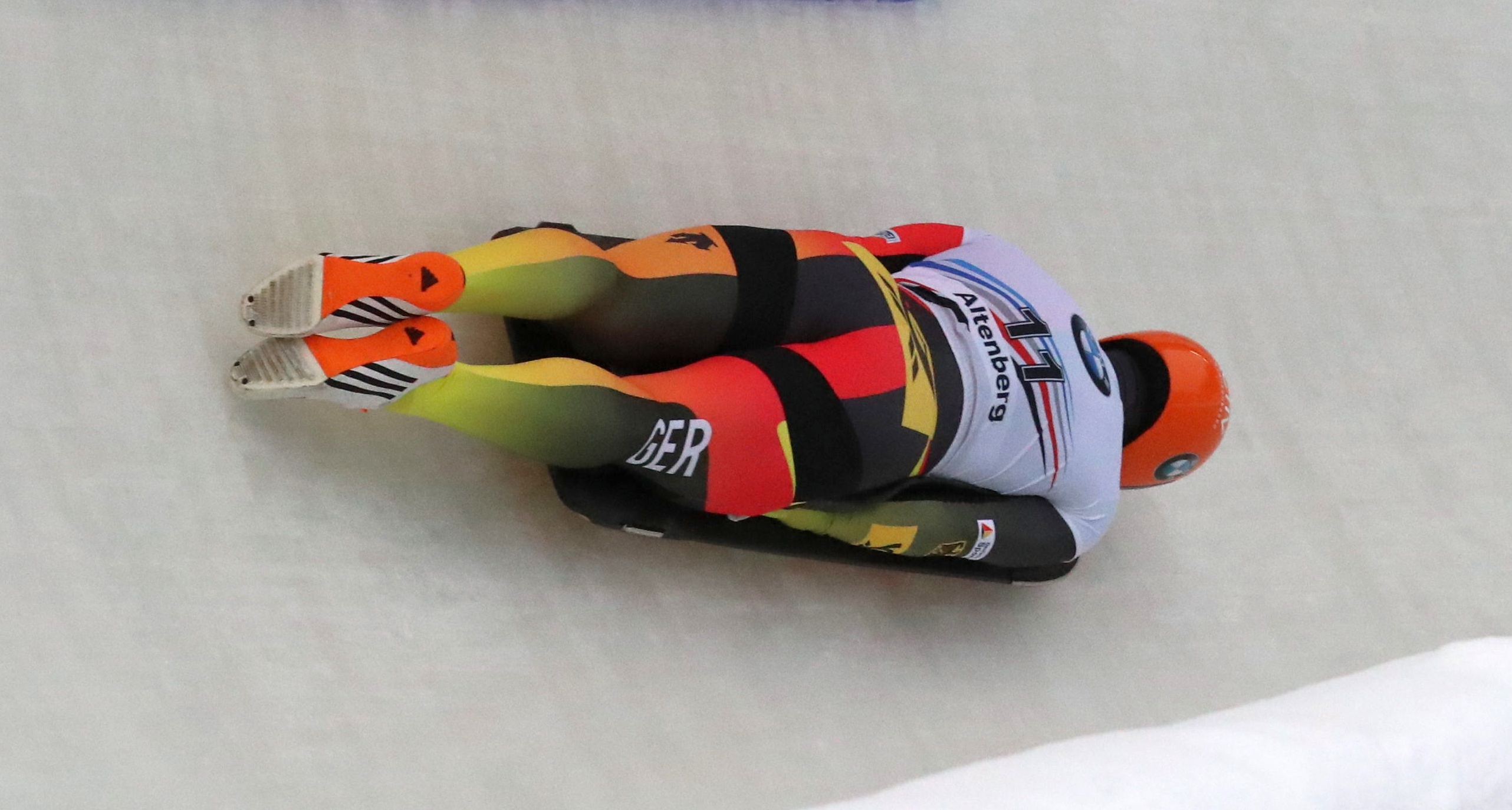 Men's World Cup race at the 2018/19 Skeleton World Cup in Altenberg